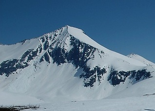 Own work May 2006. Kyrkjetaket seen from Hestberget (along usual winter route to the summit)